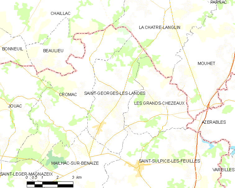 Map of French municipality Saint-Georges-les-Landes